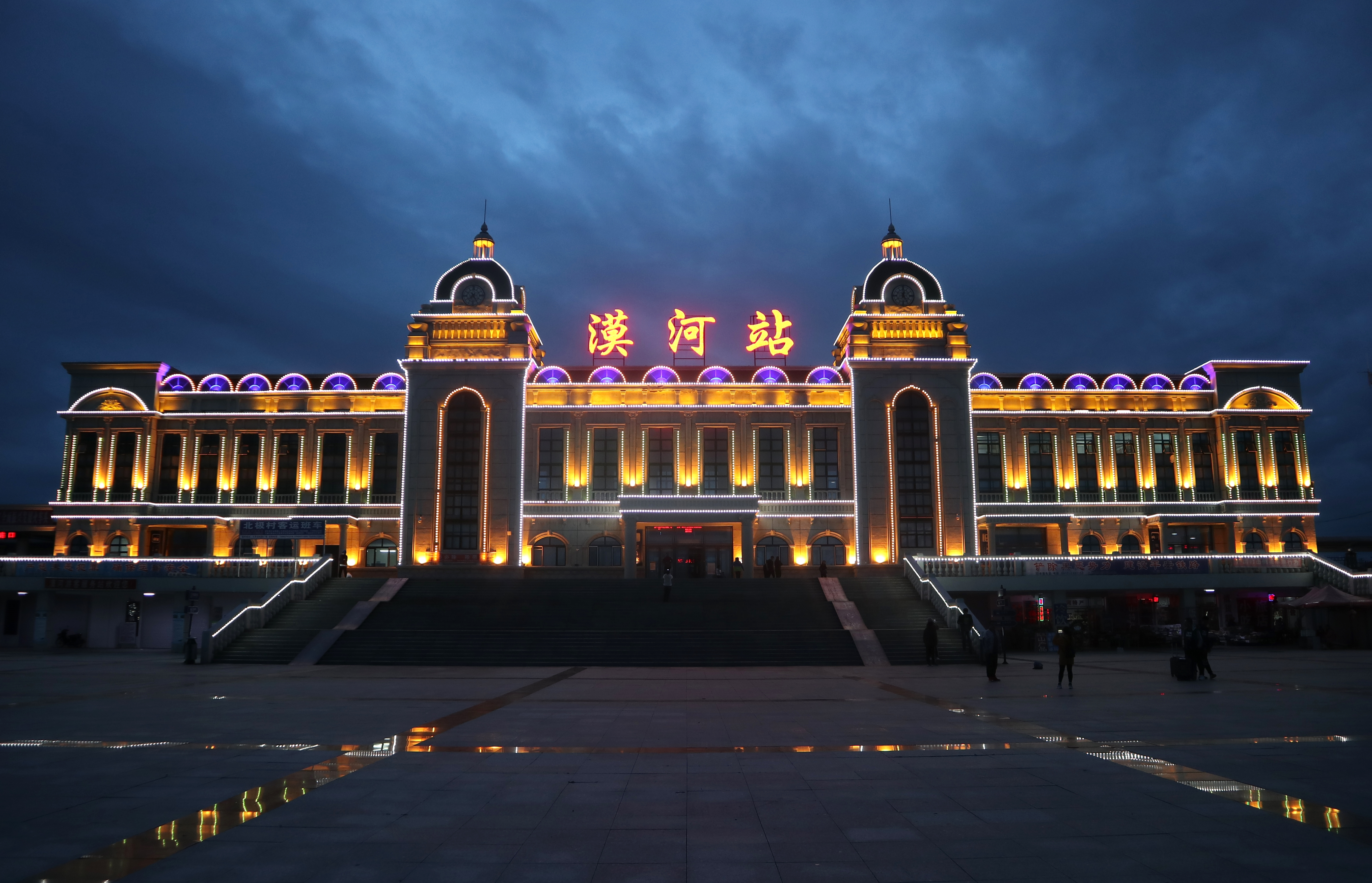 Night view of Mohe Railway Station.